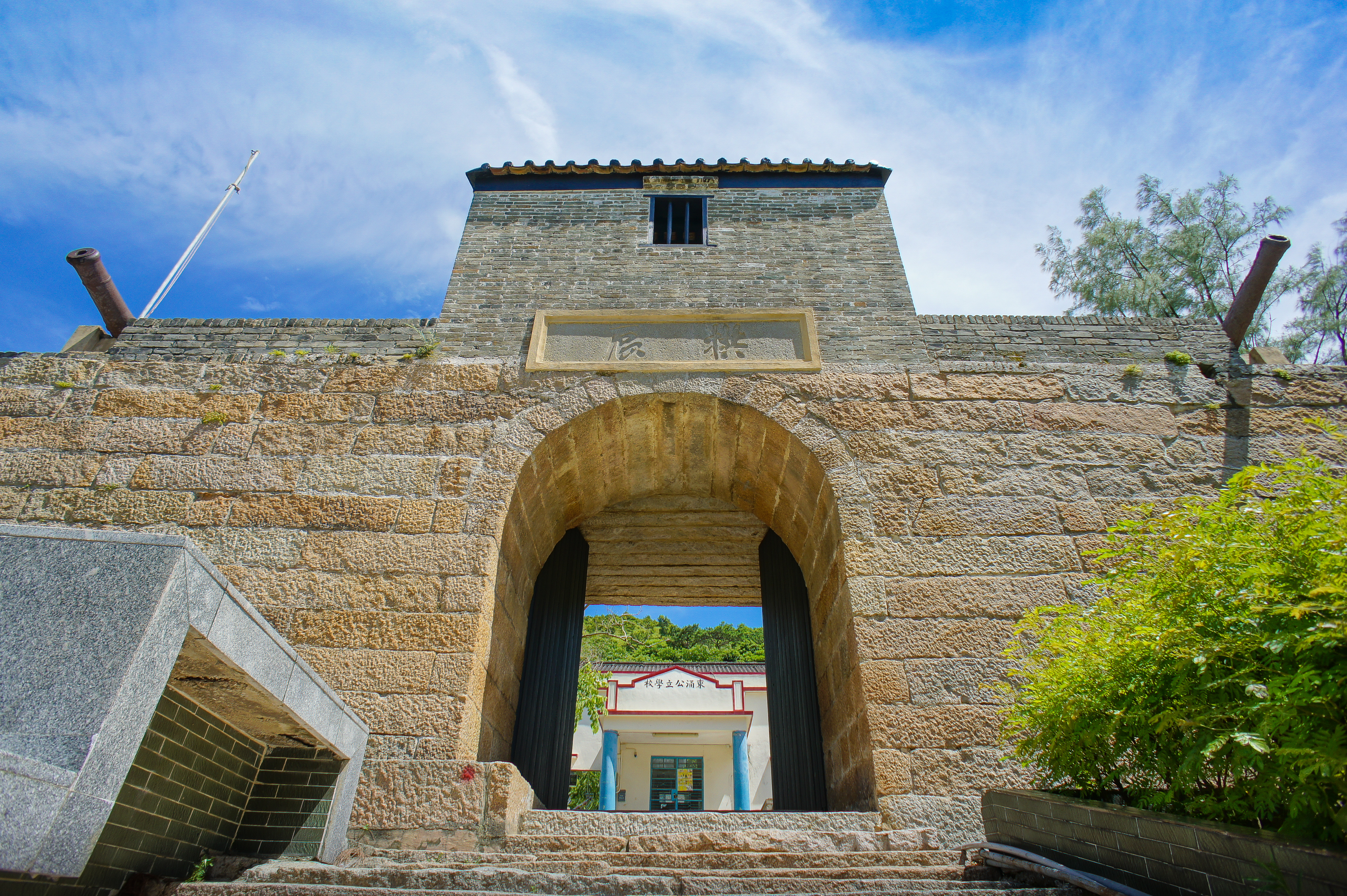 The main gate of the Tung Chung Fort, Tung Chung, Lantau Island, Hong Kong.